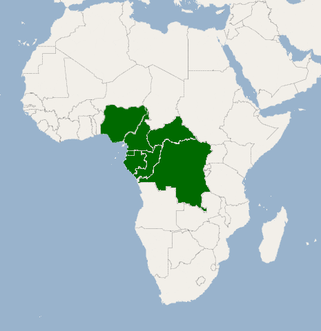 the dispersion of Irvingia gabonensis in Africa is pictured, it is a map I drew from several informations I read online. structure of map from wikimapia